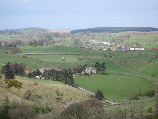 Panorama from Carvoran (Magna) (3: W-NW - towards Gilsland)